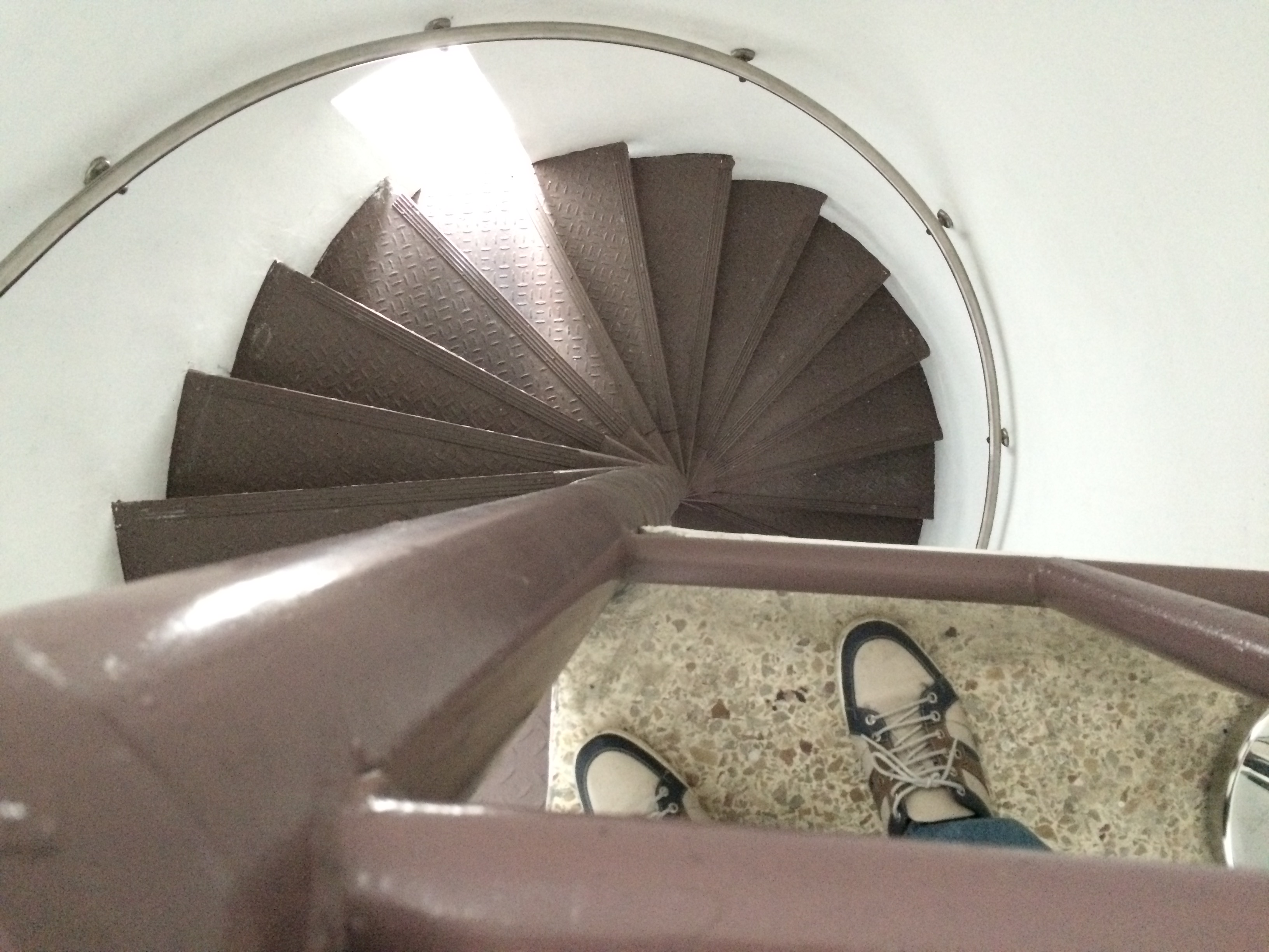 Spiral Stairs in Namyeongdong Daegong Bunsil